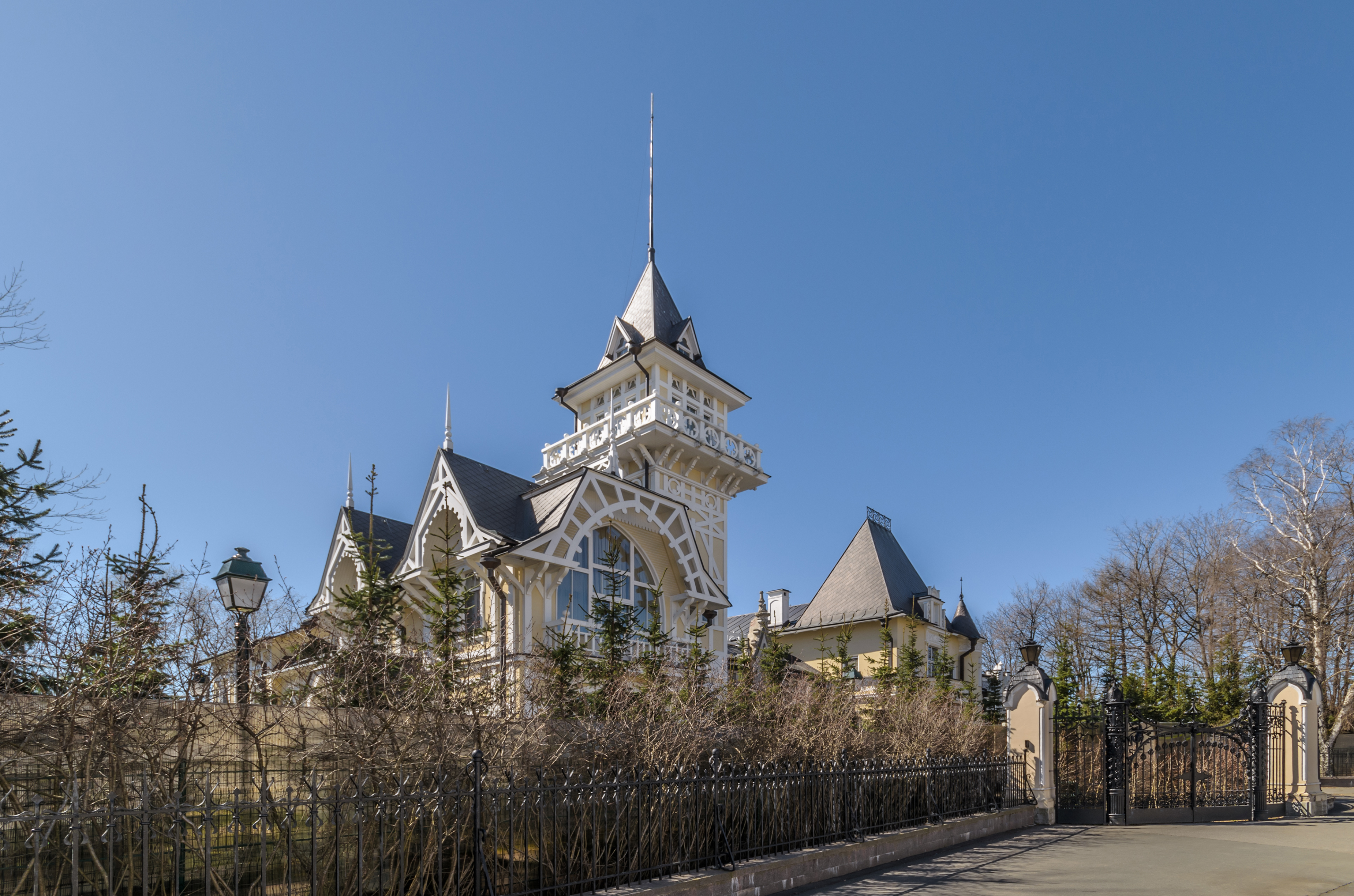 Kleinmichel manor on Kamenny Island in Saint Petersburg